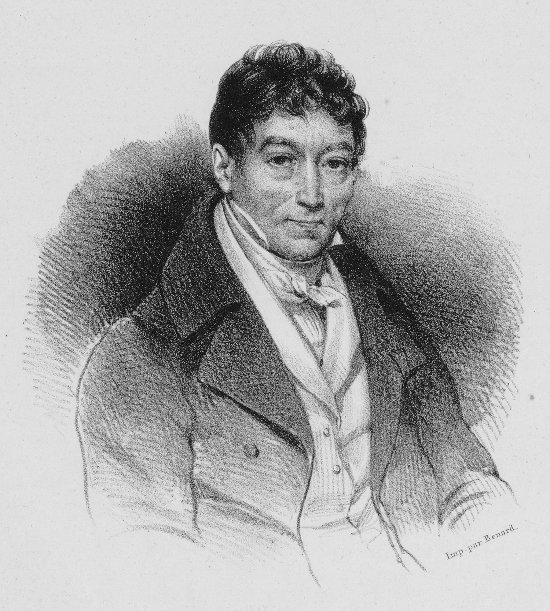 Louis Adam (1758-1848), French composer